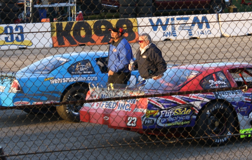 Retired NASCAR driver Dick Trickle (right) walks through the two fastest qualifying Super Late Model race cars (eventual winner #121 Chris Weinkauf and #23 Tim Sauter) at the Dick Trickle 99 race at La Crosse Fairgrounds Speedway.